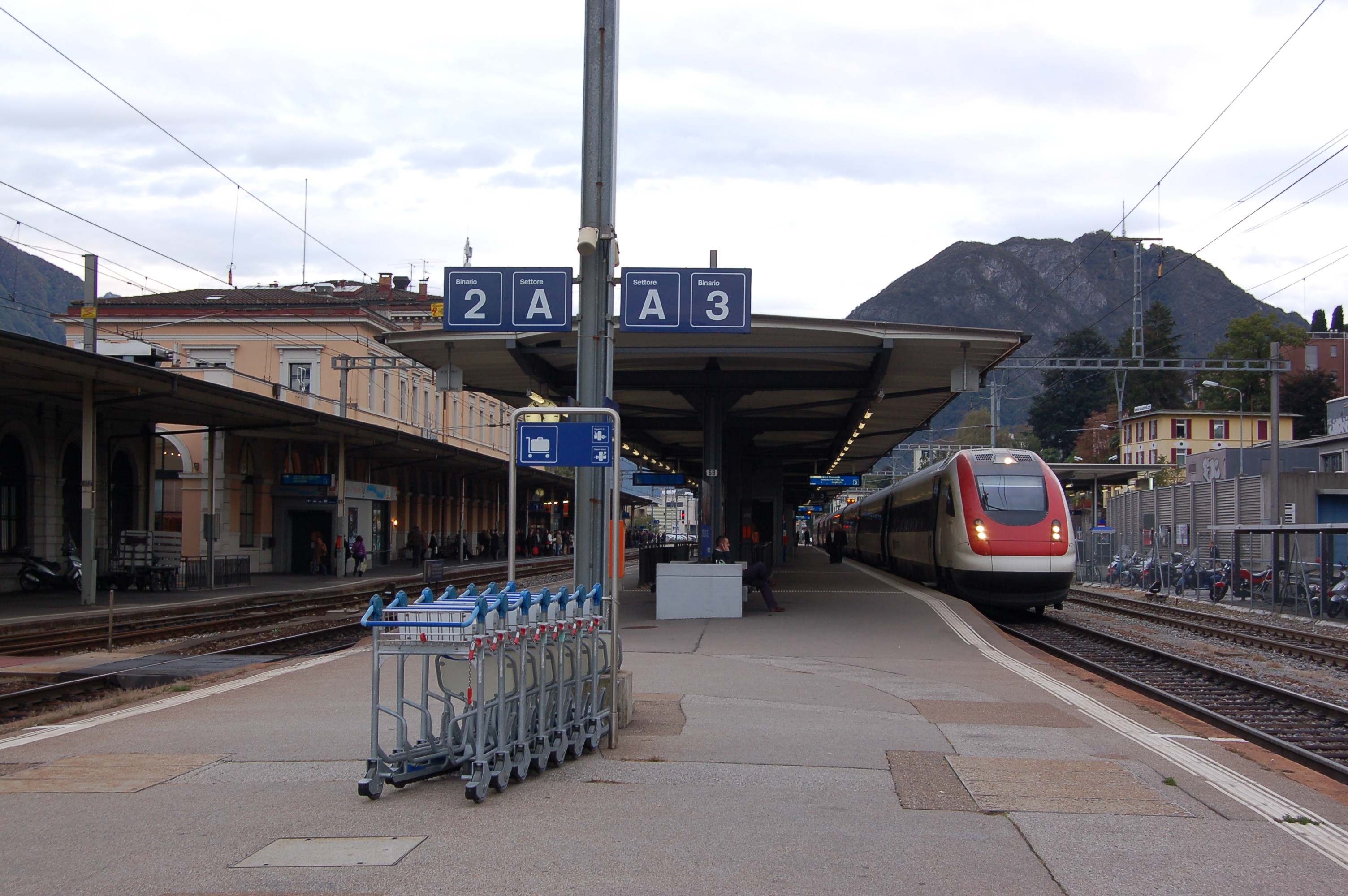 SBB-CFF-FFS Lugano railway station, Ticino, platforms 2 and 3, with ICN train (RABDe 500 041-9 William Barbey) at right.